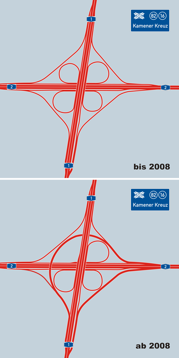 Traffic Junction 'Kamener Kreuz' till and from 2008